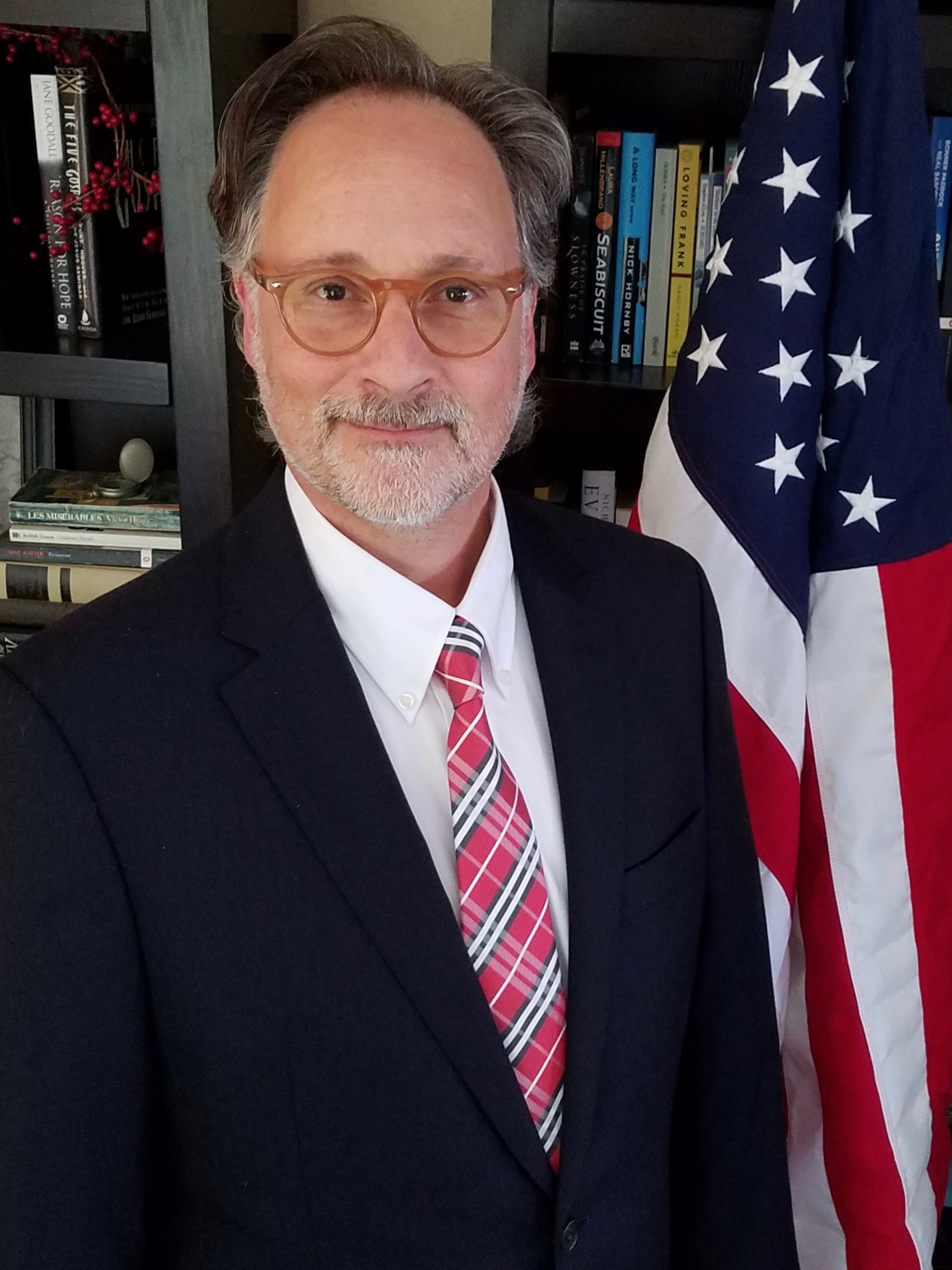 Bio Picture